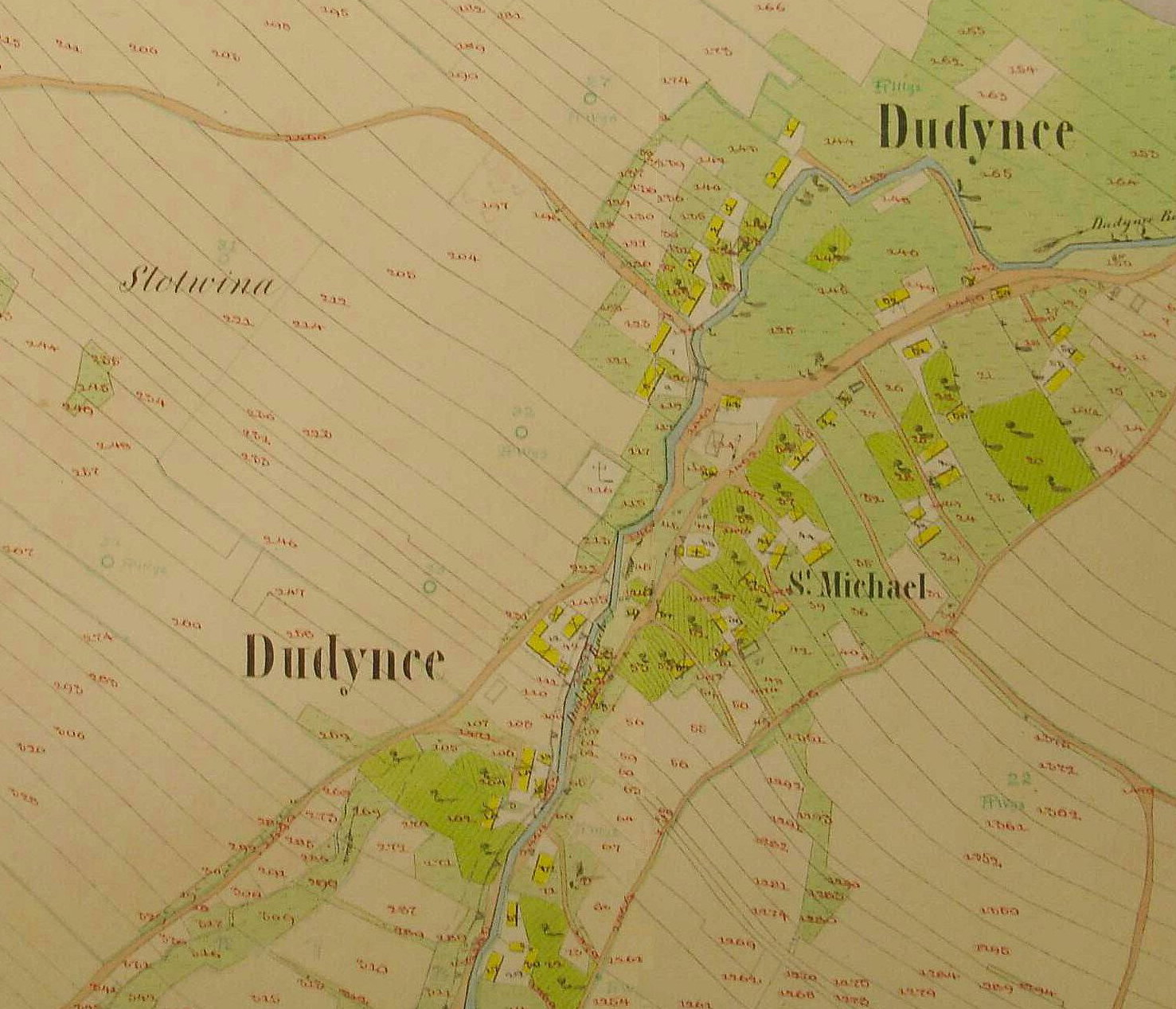 village Dudynce, Bukowsko district near Sanok, cadastral map 1852, author Marek Silarski